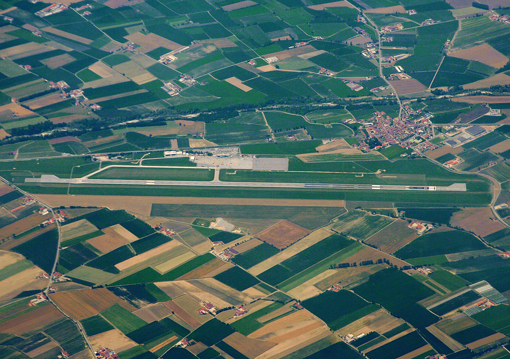 Cuneo Airport aerial view